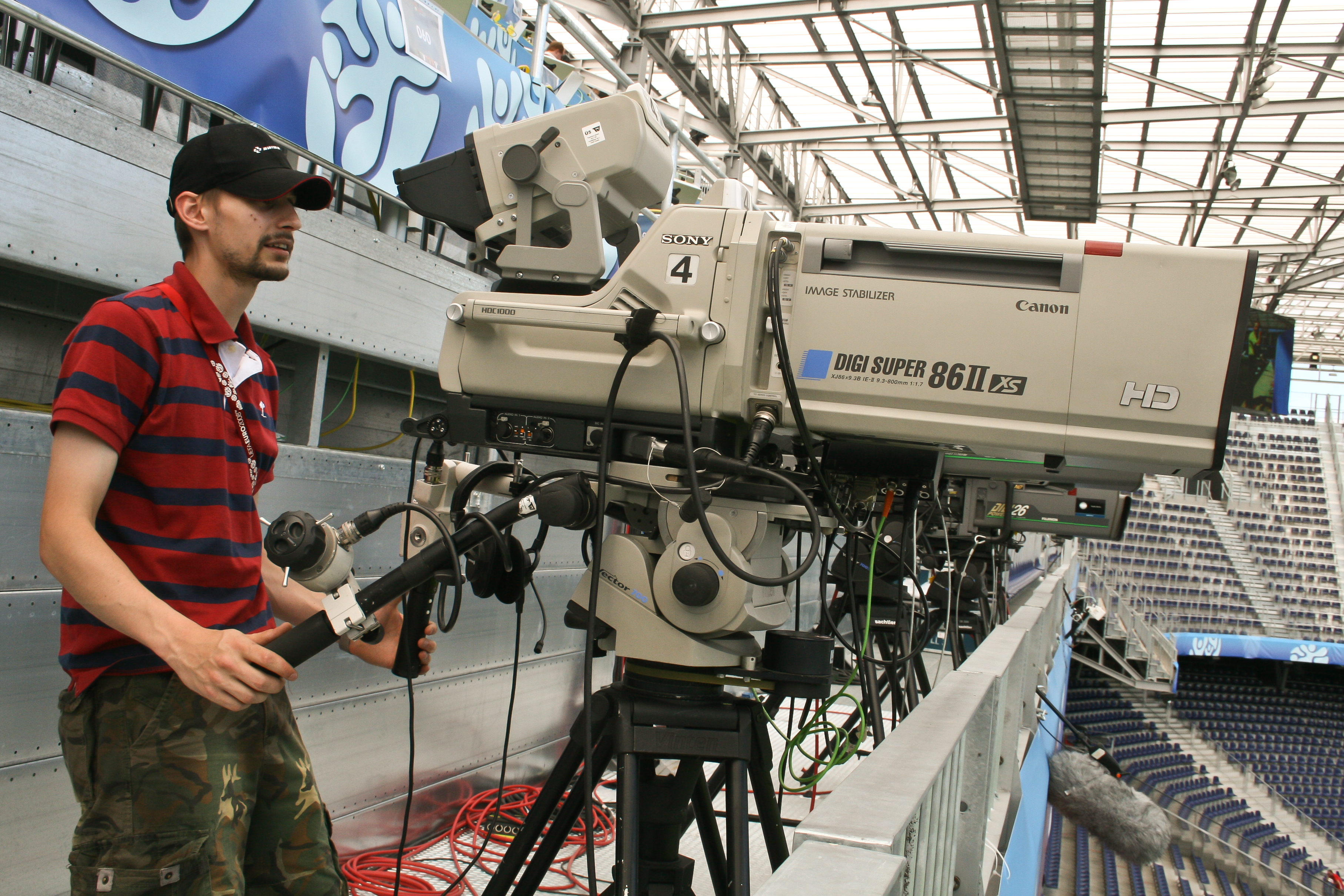 TV broadcasting in Salzburg during UEFA Euro 2008